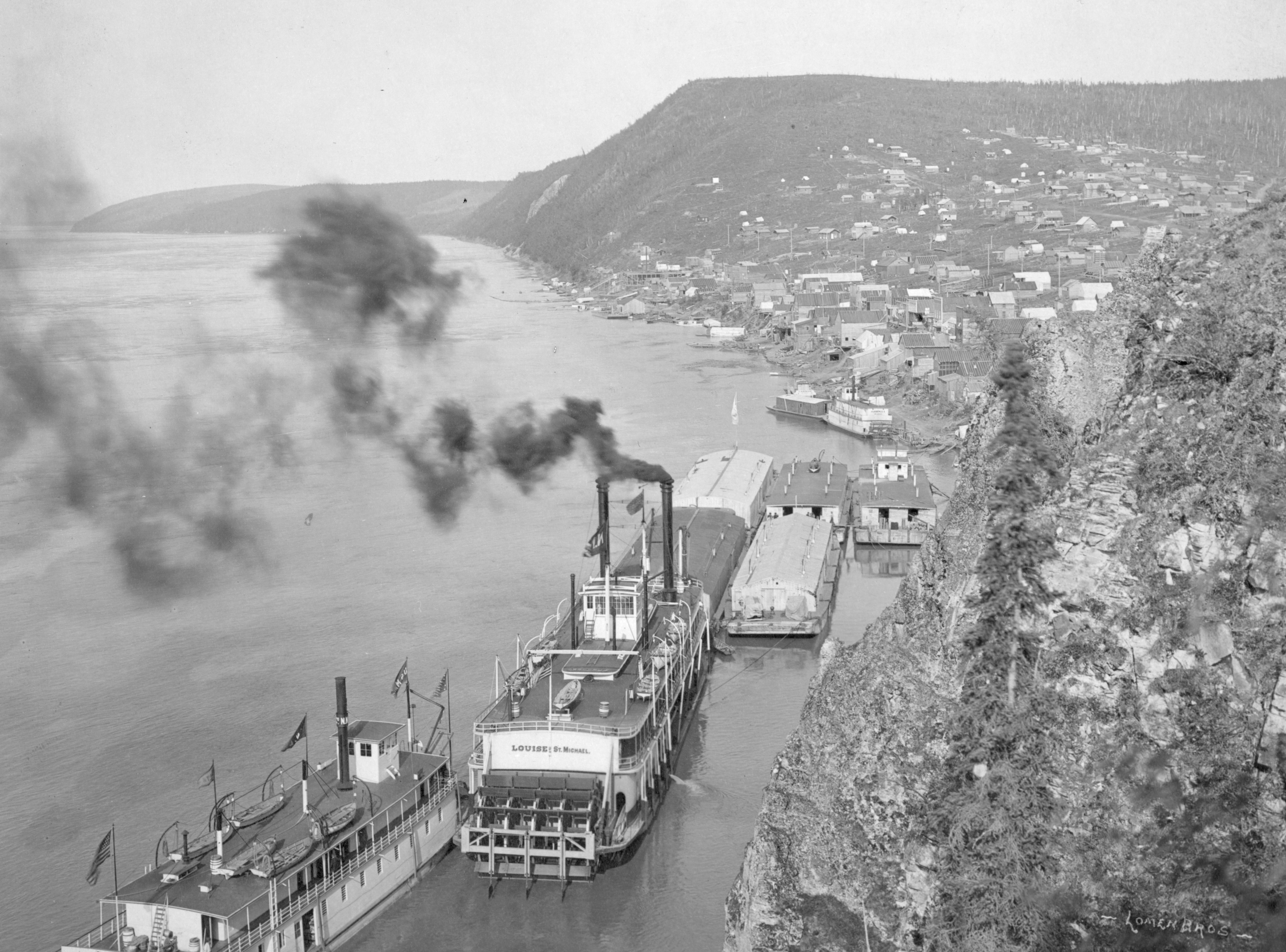 Riverboats on the Yukon River at Ruby, Alaska. The large twin-stack boat is the Louise of St. Michael, operational 1898-1920. Ruby was founded 1910.